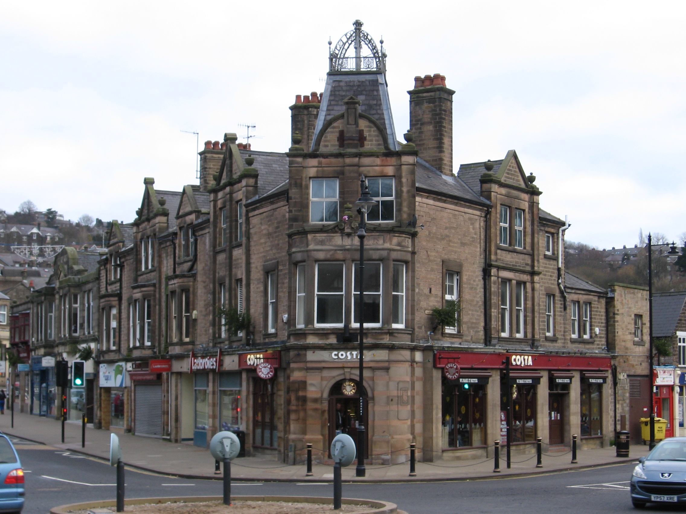 Matlock - Crown Buildings